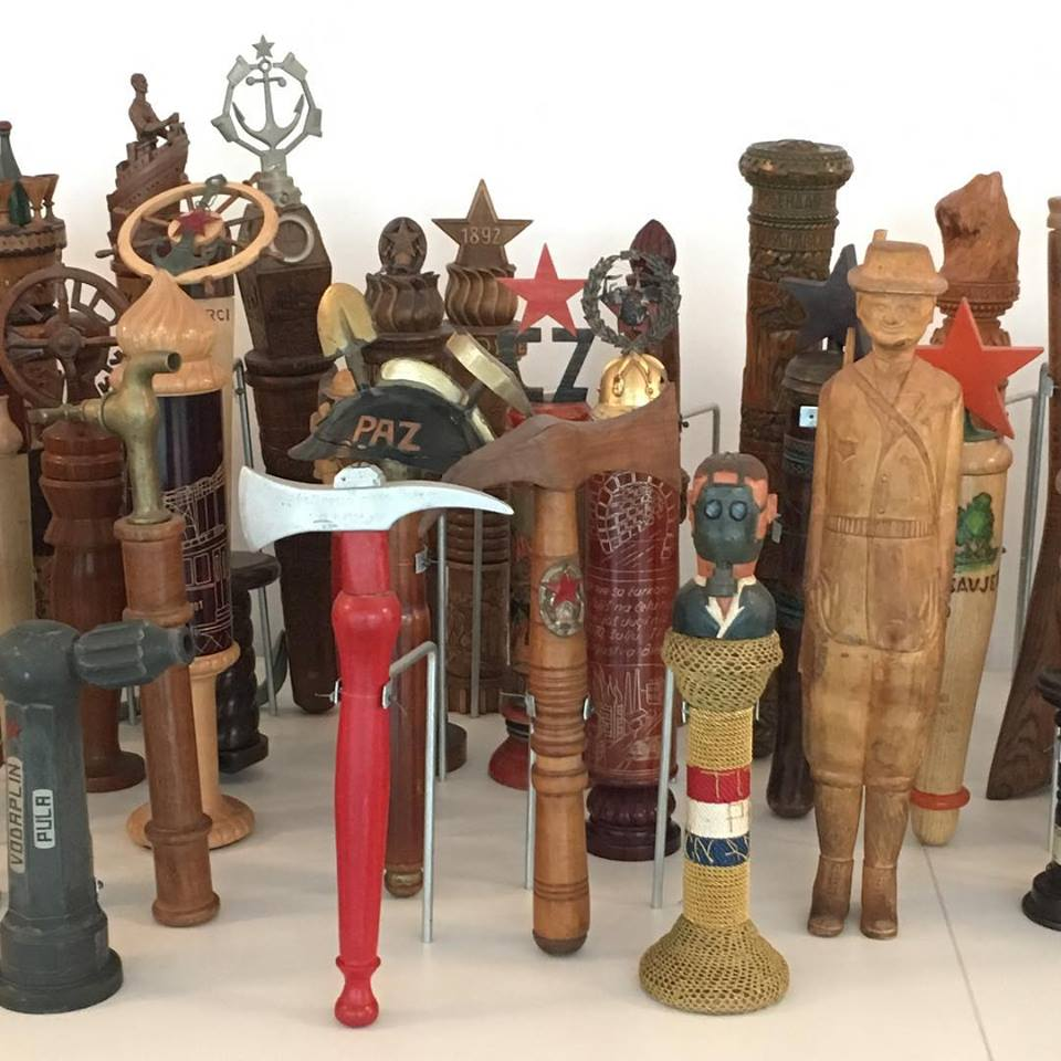 Stips that Josip Broz Tito received from all sides of the former Yugoslavia are kept in the Museum of Yugoslav History in Belgrade